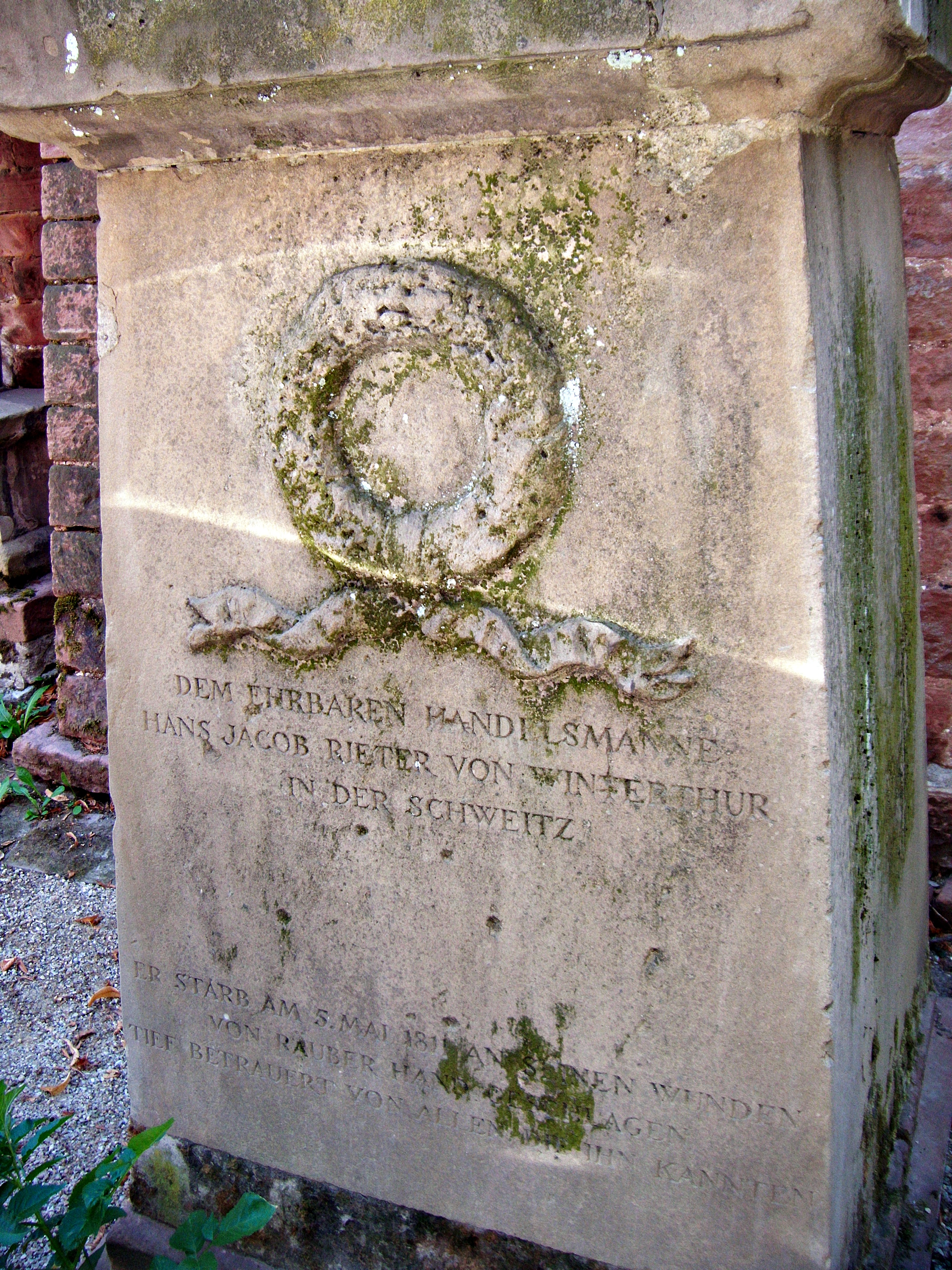 Hans Jacob Rieter (1766-1811), Kaufmann aus Winterthur, ermordet, Grabstein Heidelberg, St. Peter